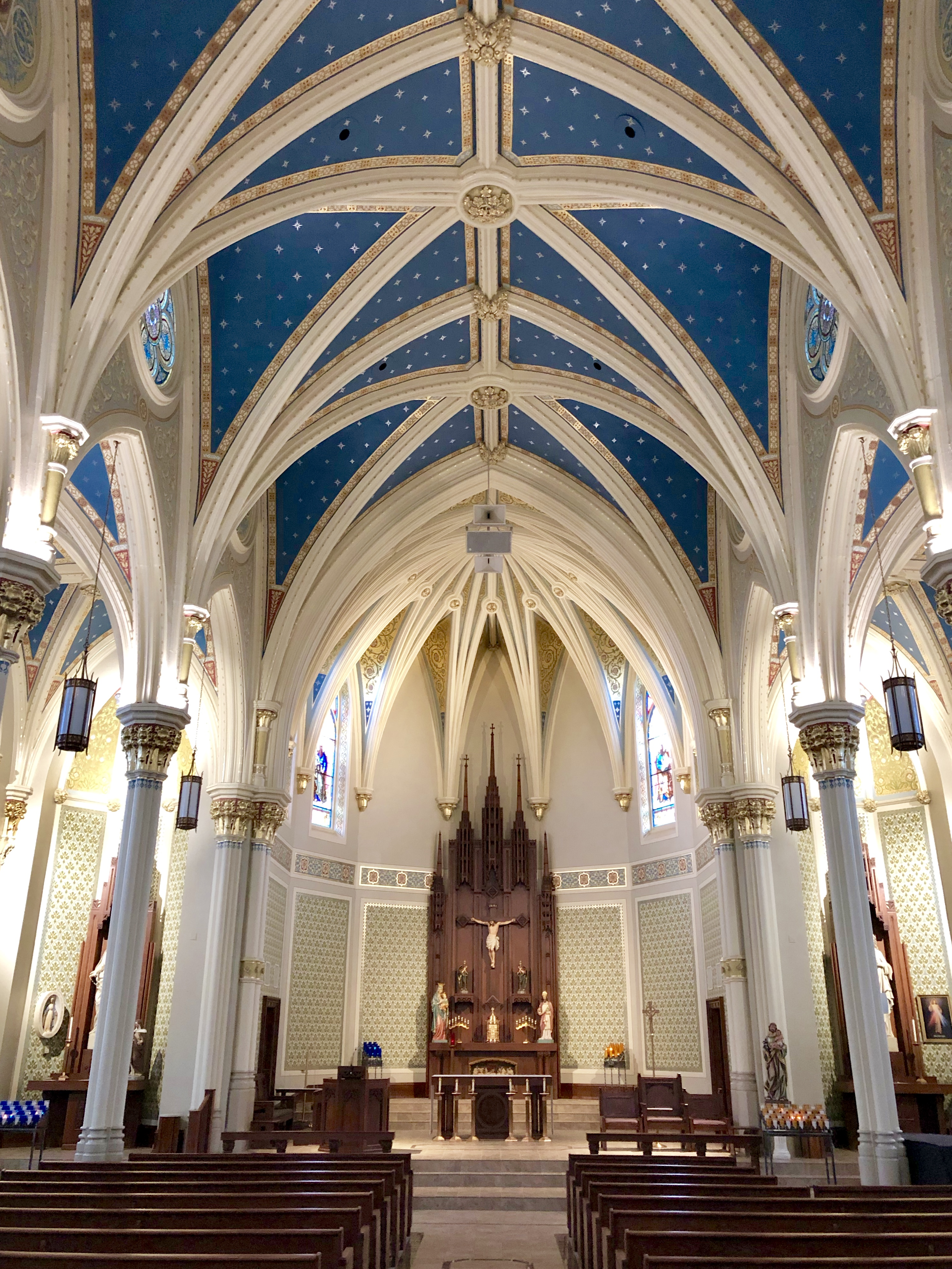 Showing post-renovation interior, 2019